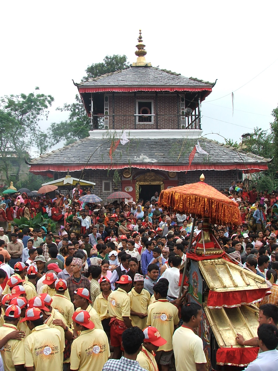 Bhagawati Temple, Tansen, Palpa